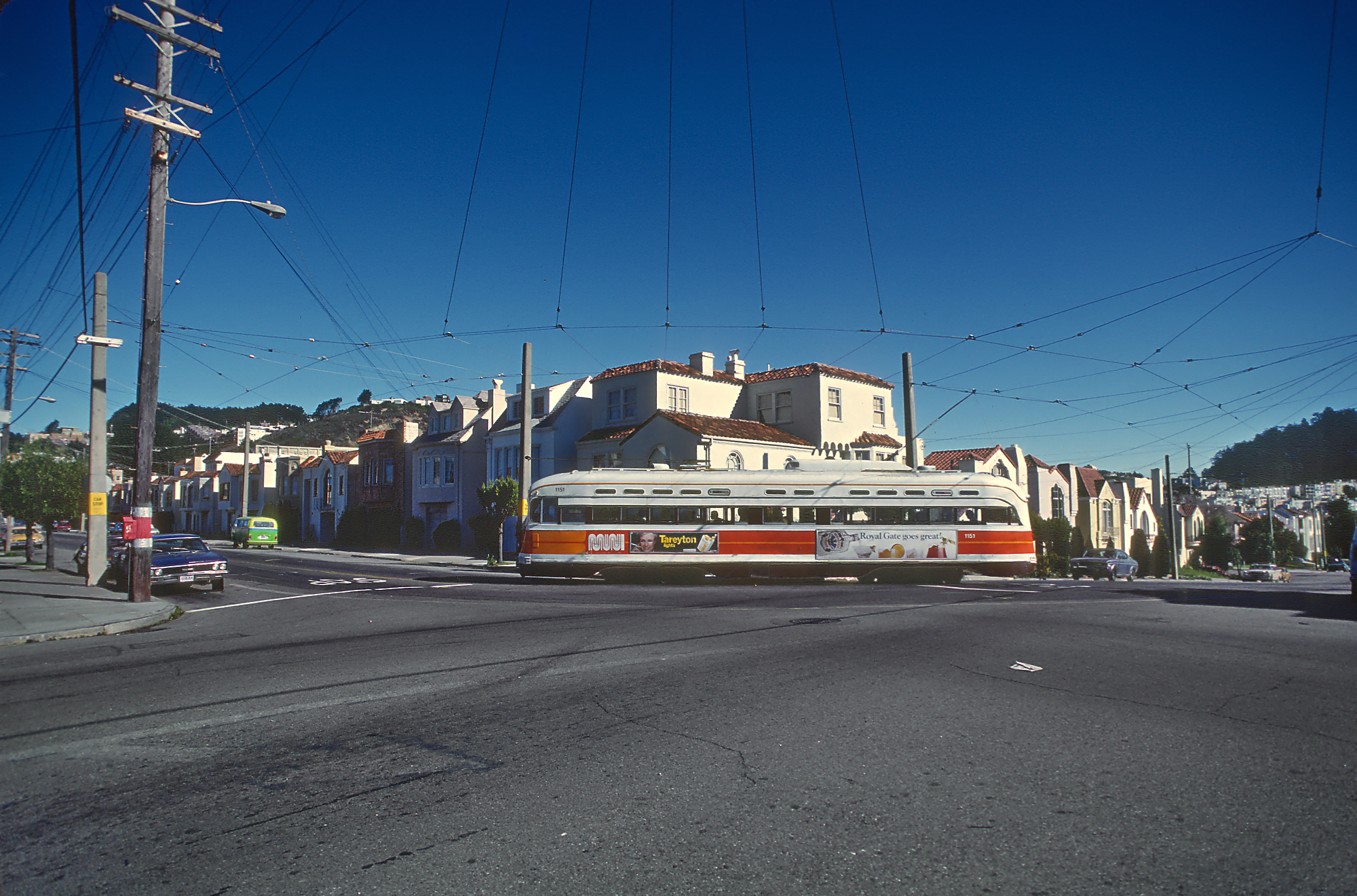 An outbound L Taraval train rounds the corner from Ulloa onto 15th. Note the array of pull-offs - wires that pull on the trolley wires to keep them in a curve over the curved track.